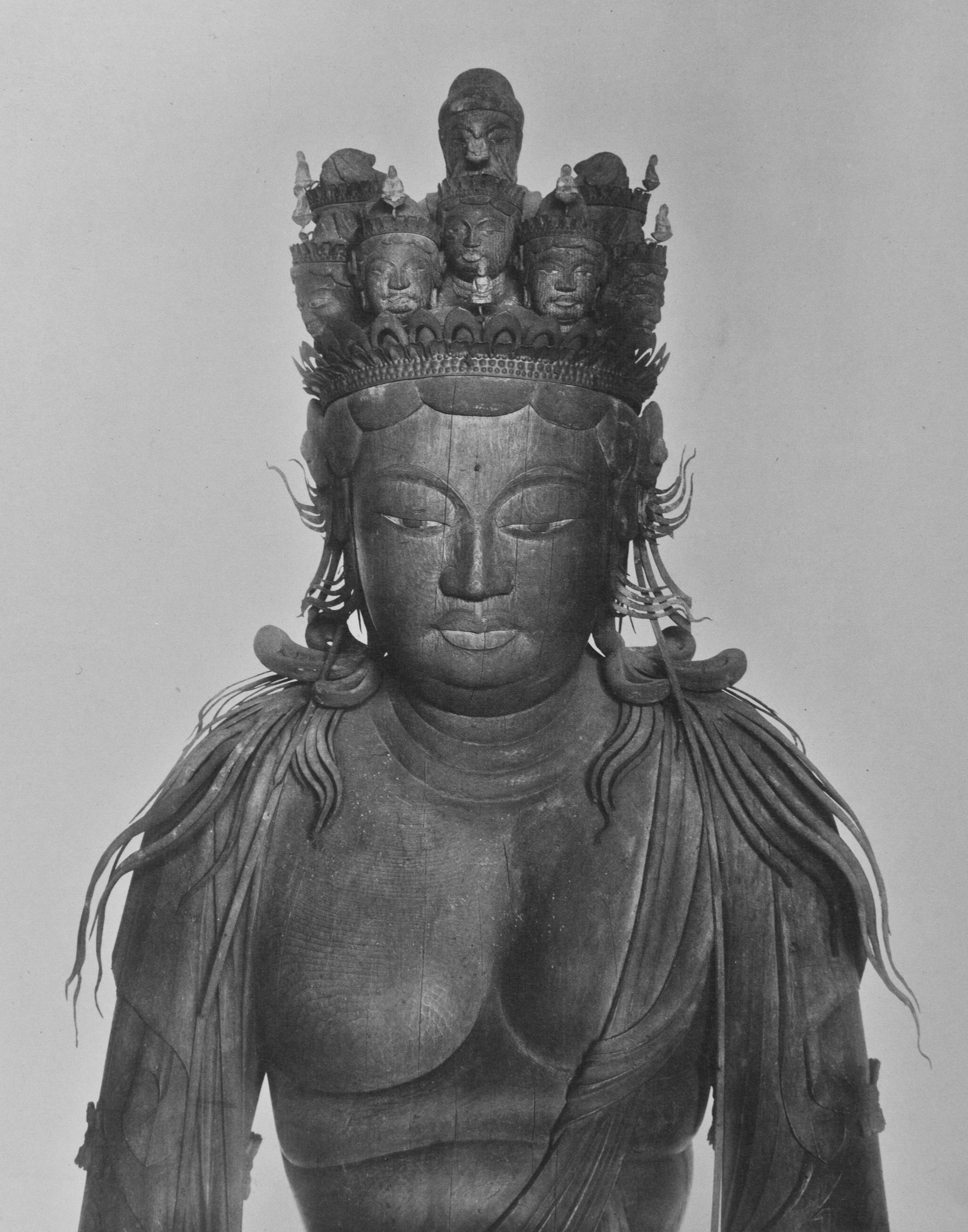 Hokkeji, Nara, Japan